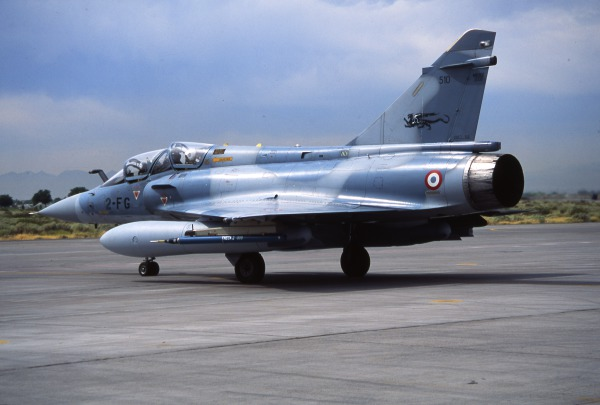 PictionID:43724871 - Catalog:17.S_000285 - Title:Dassault Mirage 2000 B 510 2-FG EC2-2 -Cote d'Or- 23Jun92 [RJF] - Filename:17.S_000285.tif - ----Image from the René Francillon Photo Archive. This images is from a 35mm slide. Having had his interest in aviation sparked by being at the receiving end of B-24s bombing occupied France when he was 7-yr old, René Francillon turned aviation into both his vocation and avocation. Most of his professional career was in the United States, working for major aircraft manufacturers and airport planning/design companies. All along, he kept developing a second career as an aviation historian, an activity that led him to author more than 50 books and 400 articles published in the United States, the United Kingdom, France, and elsewhere. Far from “hanging on his spurs,” he plans to remain active as an author well into his eighties.-------PLEASE TAG this image with any information you know about it, so that we can permanently store this data with the original image file in our Digital Asset Management System.--------------SOURCE INSTITUTION: San Diego Air and Space Museum Archive